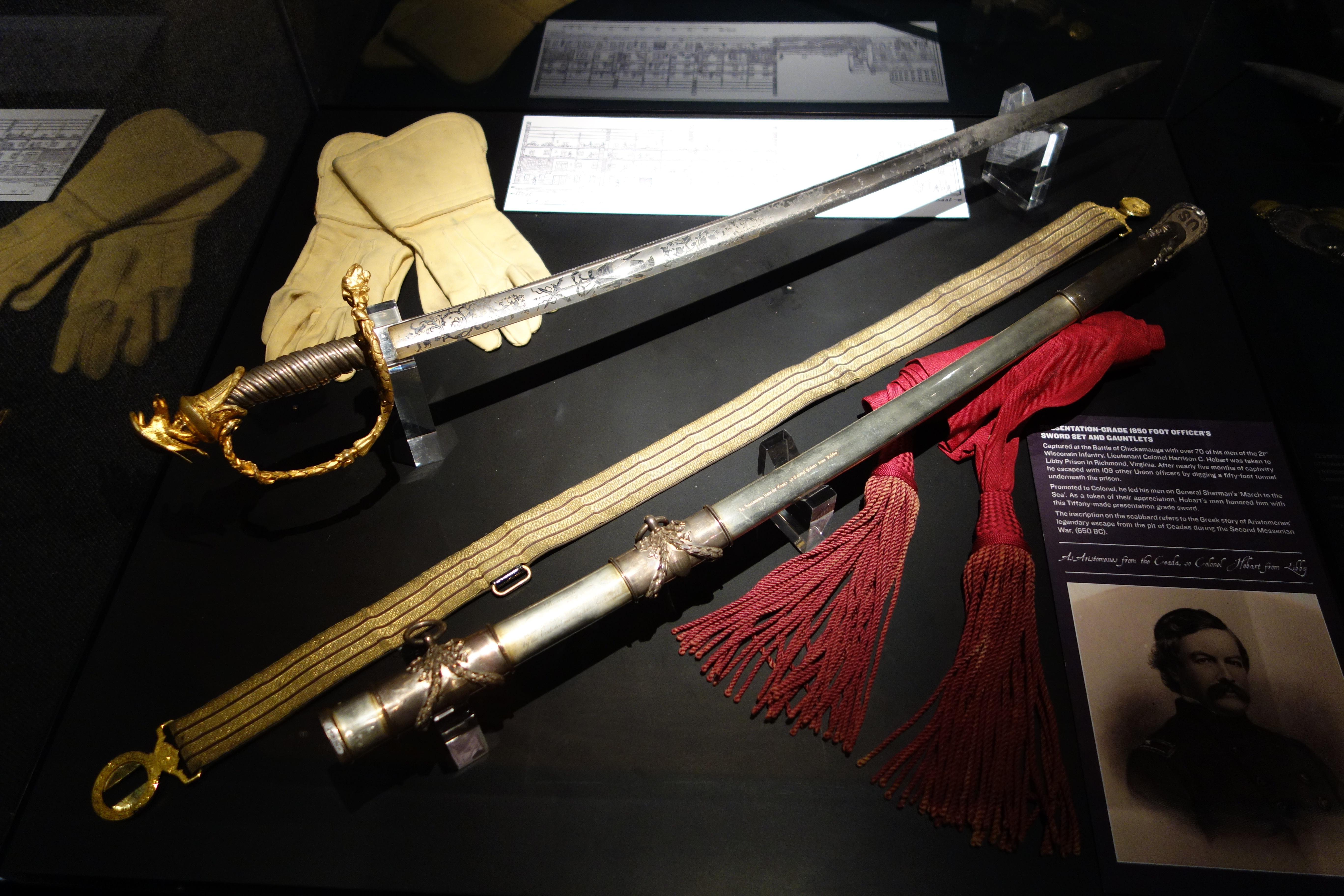 Exhibit in the Wisconsin Veterans Museum, Madison, Wisconsin, USA. This item is old enough so that it is in the public domain.